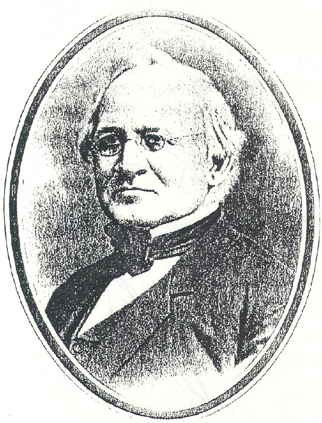 John E. Seeley, Congressman from New York